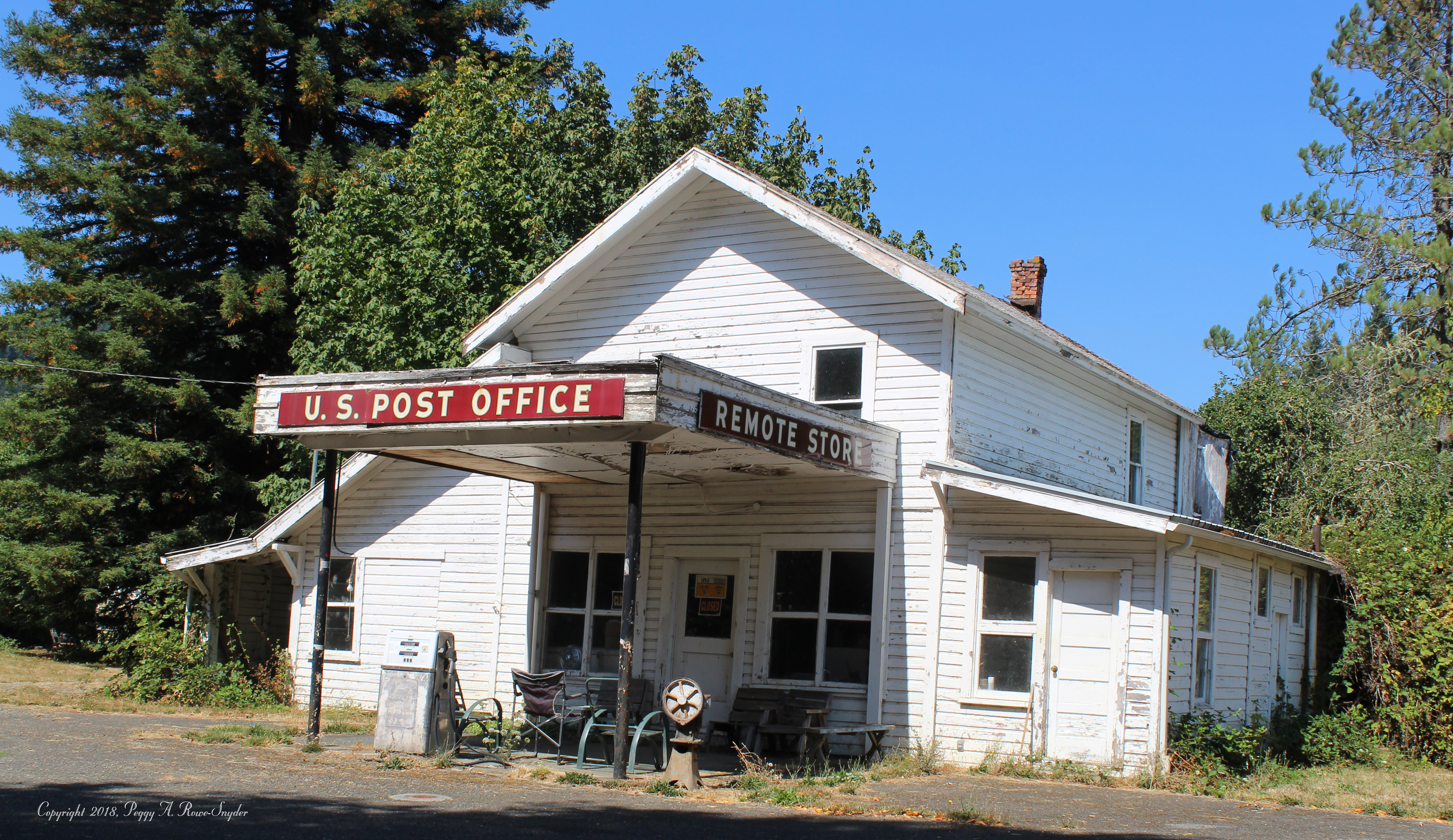 Remote, Coos County, Oregon. Photo of the Remote Post Office, Store, & 76 Gas Station. The last price per gallon as the pump reads is $1.57 a gallon. One house stands to the left of the store/post office/gas station.